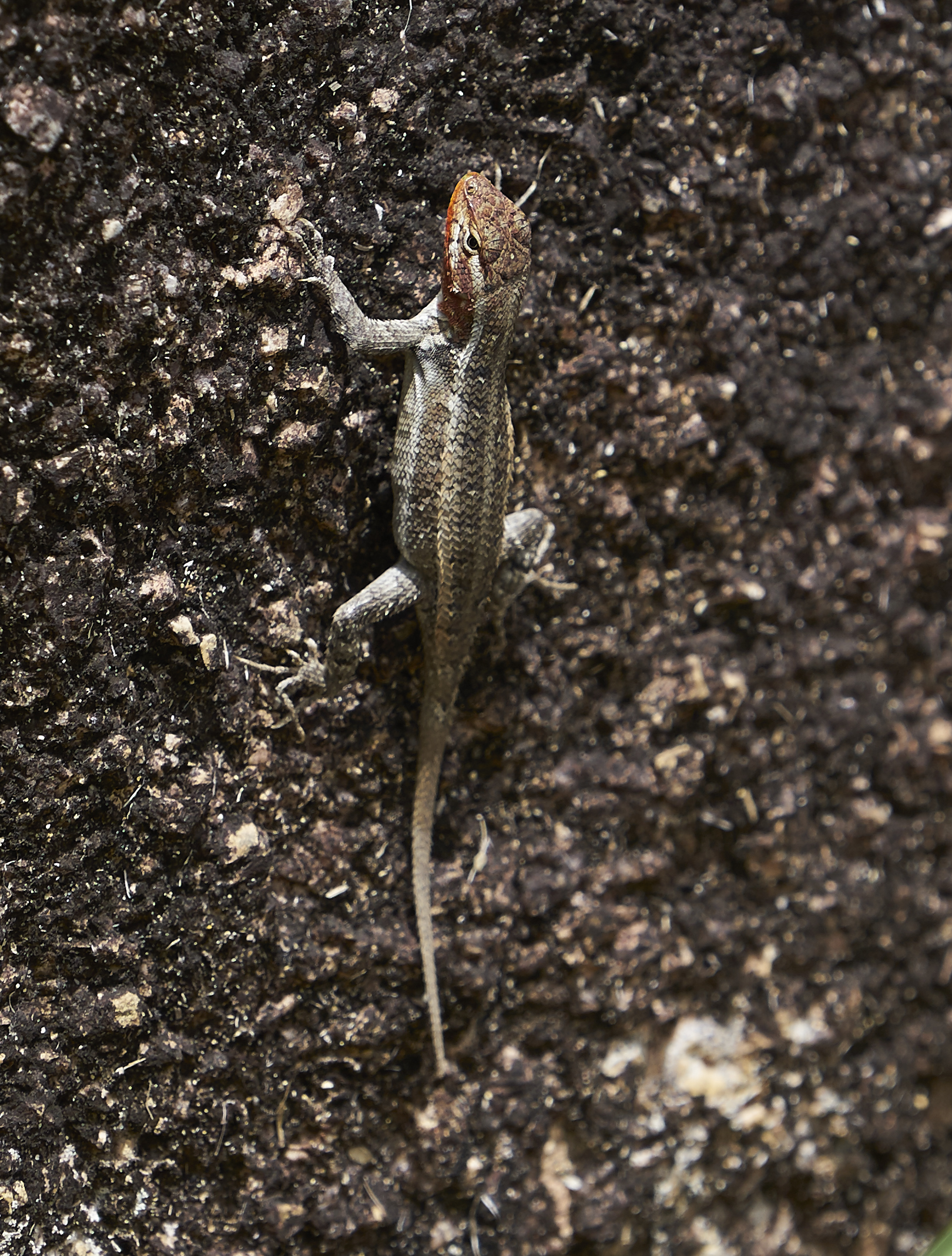 Sceloporus chrysostictus near Rio On Pools, Cayo District, Belize The making of this document was supported by the Community-Budget of Wikimedia Germany.